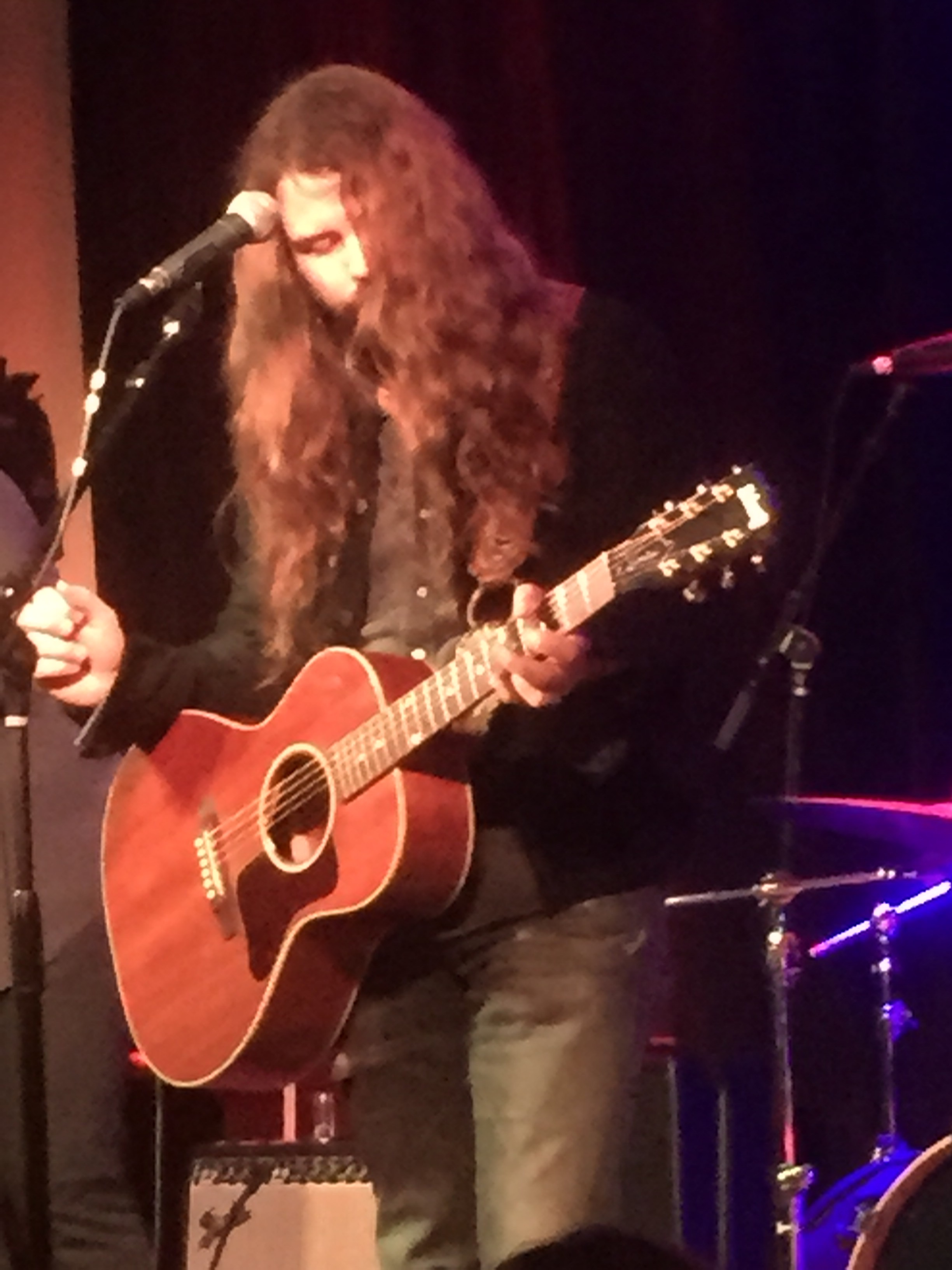 Brent Cobb performing at Third & Lindsley during an Americana festival.